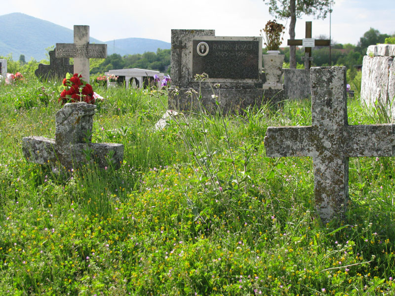 Gardun near Trilj, Croatia - old and modern graves at the graveyard